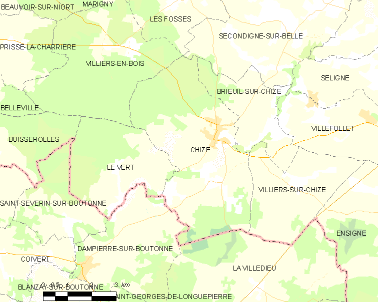 Map of French municipality Chizé